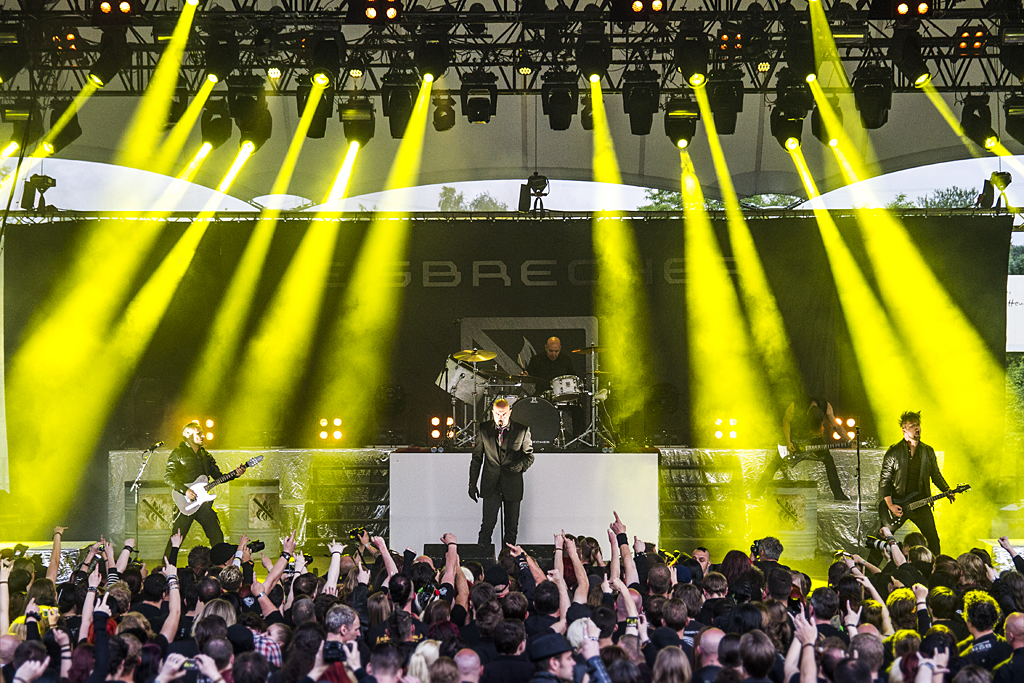 Eisbrecher, photographed at the Blackfield Festival 2013 in Gelsenkirchen, Germany